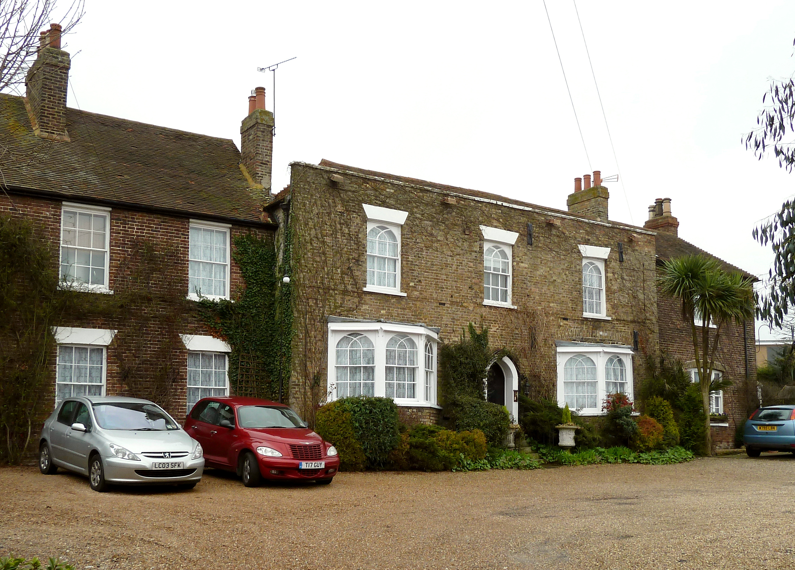 The Priory, Eddington, Kent; a listed building. English Heritage says in its listing description that the Priory is an early 19th century brown brick house in Gothic Revival style, including a pointed doorway with moulded architrave.